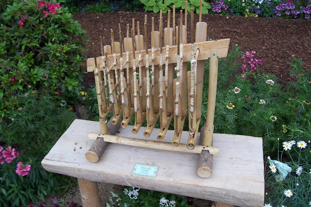 A bamboo musical instrument called an angklung, which is found primarily in Indonesia. This example was part of a themed exhibit for the Floral Show Dome at the Mitchell Park Horticultural Conservatory in Milwaukee, Wisconsin.